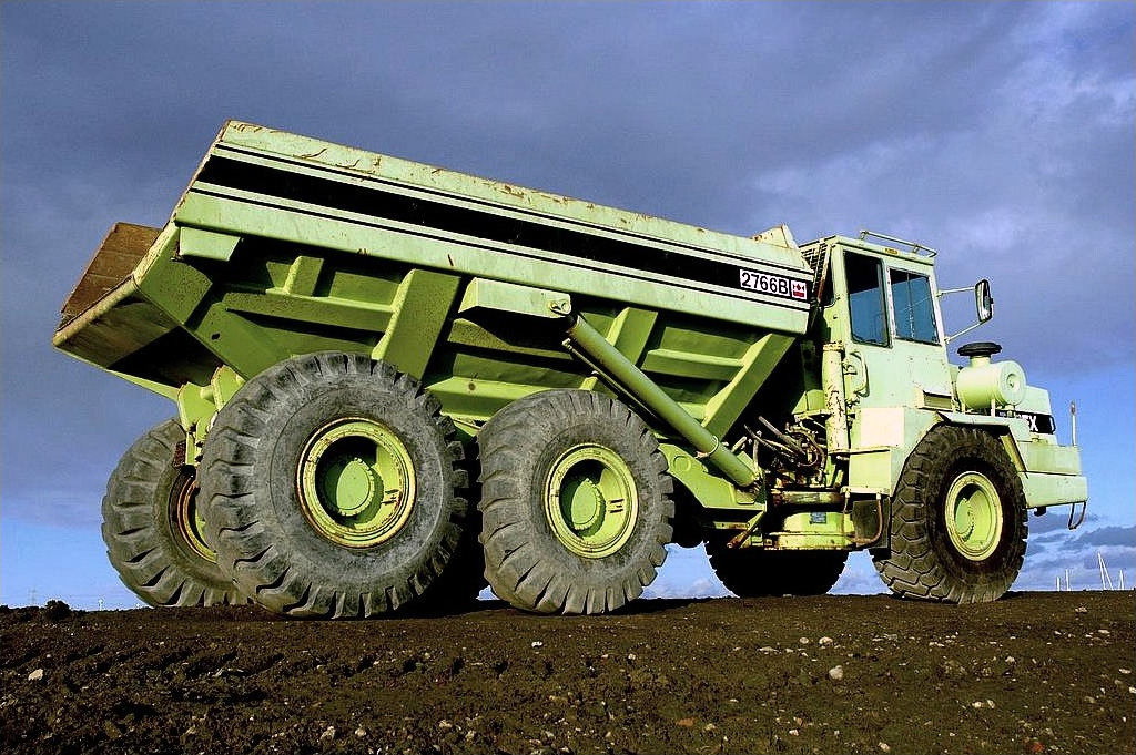 Dump Truck 1b